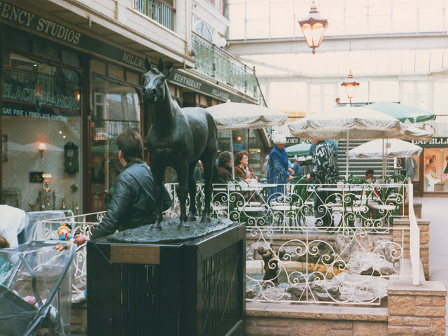 Red Rum statue, Southport The statue of Southport's most famous four-legged son is in the Wayfarers Arcade. The horse became famous for winning the Grand National race three times in the 1970s. Red_Rum